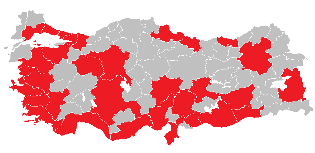 Red: Metropolitan Municipalities of Turkey.